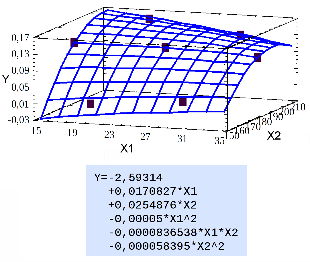 Design of experiments; Doehlert method used. 2 factors (X1: curing time in min; X2: curing temperature in °C); 7 trials; Y: property of the material (response). Matrix of the trials: N - X1 - X2 1 - 25 - 180 2 - 35 - 180 3 - 15 - 180 4 - 30 - 206 5 - 20 - 206 6 - 30 - 154 7 - 20 - 154 Result: Estimated response surface; Y estimated for a 95% confidence level; corresponding polynomial model. Parabola effect with X2.